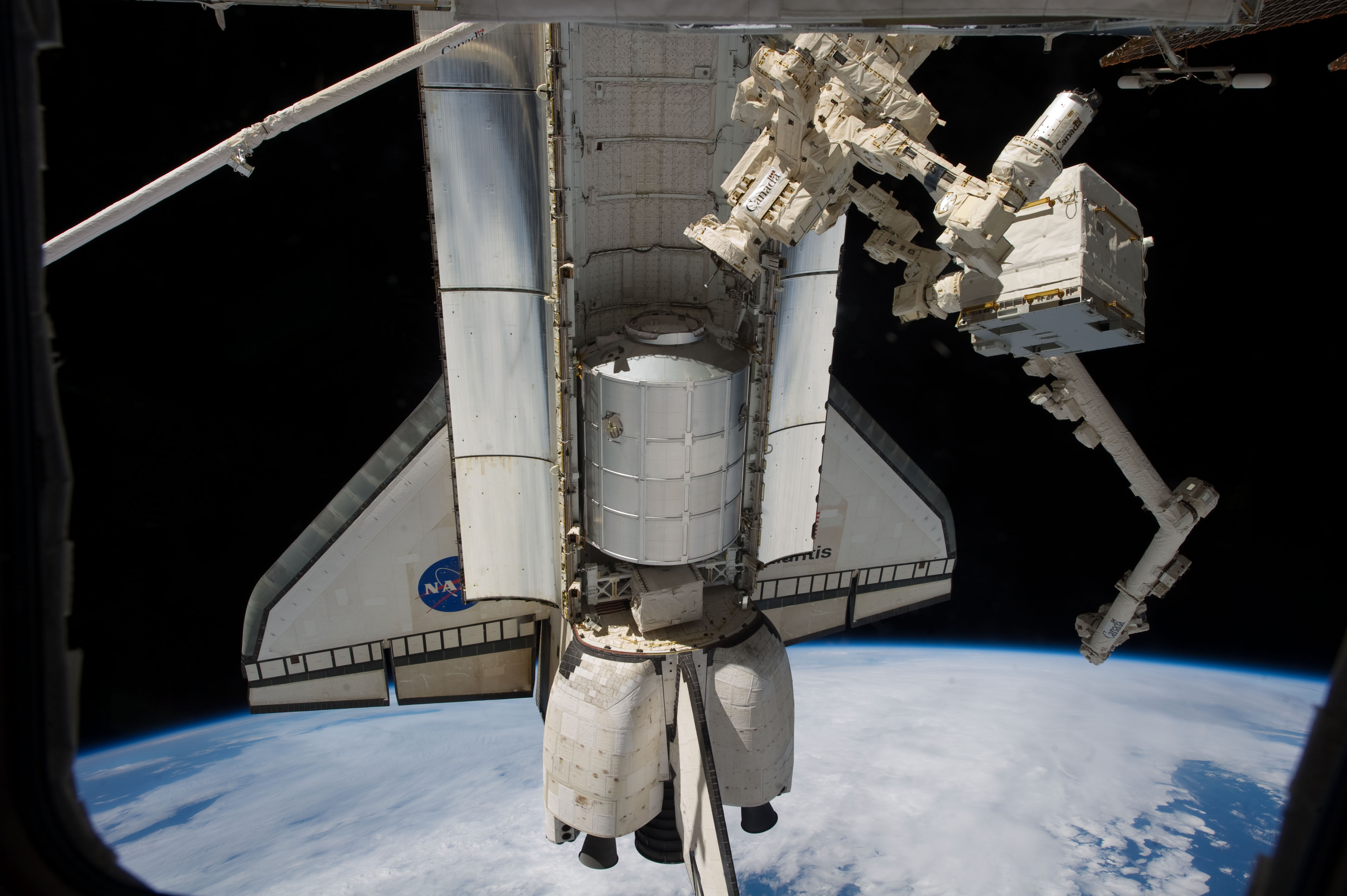 This is a view of the space shuttle Atlantis and its Raffaello multi-purpose logistics module during the final day of being docked with the International Space Station. The object connected to the station at right in the grasp of Dextre, a robot hand, is the Cargo Transport Container-2 (CTC-2) which was delivered by JAXA's HTV-2 vehicle earlier in the year.